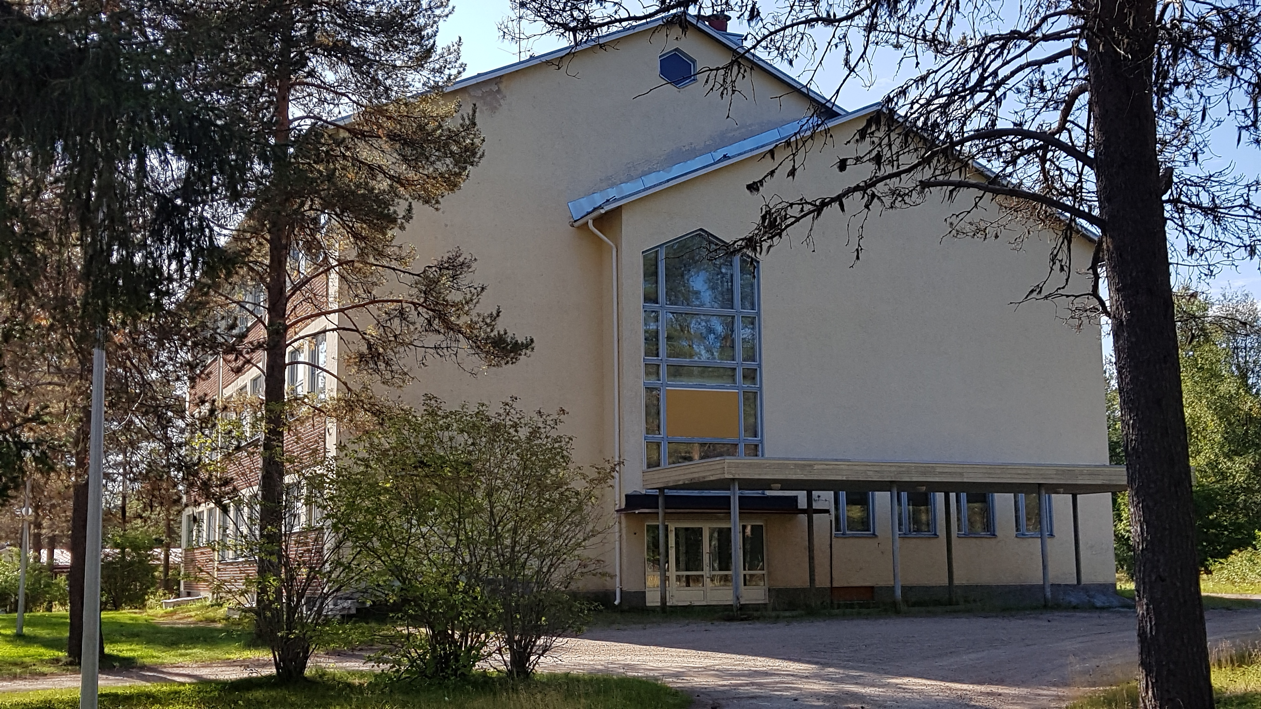 Old primary school of Tohmo, Kemijärvi, Finland, photo taken in 2018.